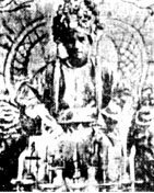 Phan Xich LongTiếng Việt: Chân dung ông Phan Xích Long trên mặt báo.